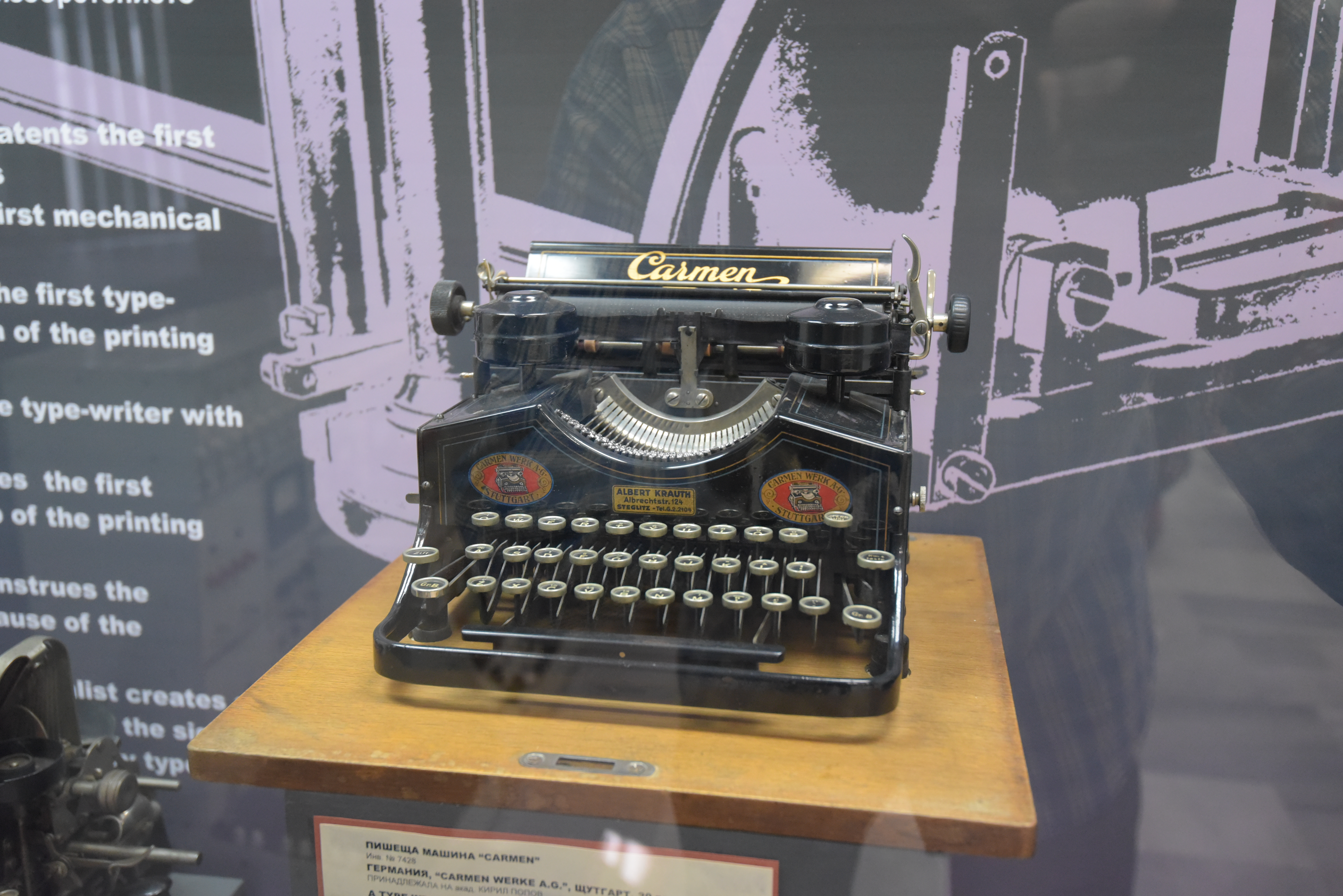 Exhibit of the National Polytechnic Museum in Sofia, Bulgaria.